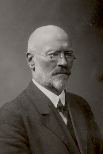 Photograph of the Finnish writer Edvin Calamnius alias Esko Virtala (1864–1927).